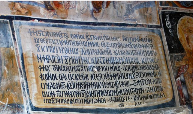 Assumption Church in Tornik Inscription on the Western Wall above the Entrance